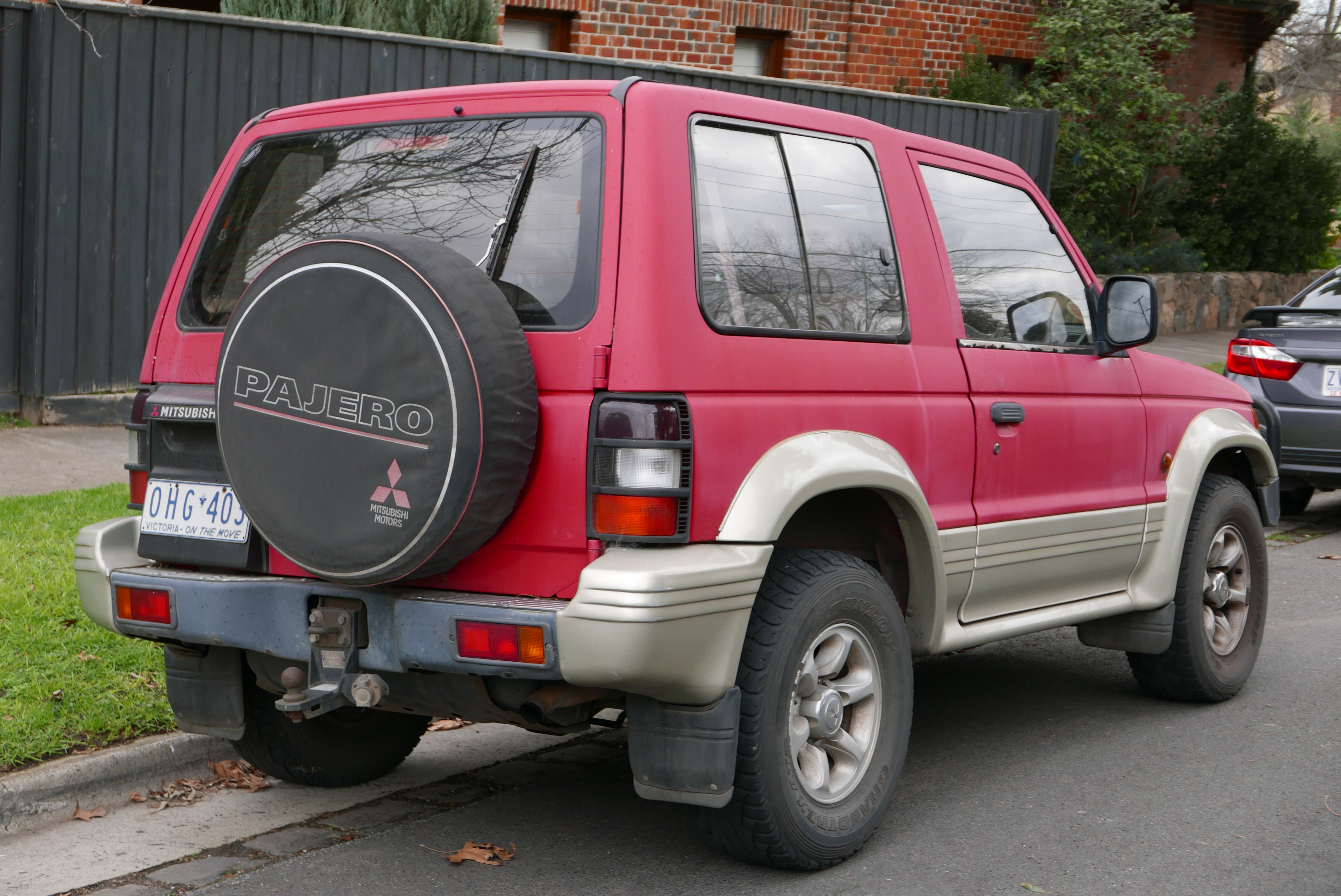 1993 Mitsubishi Pajero (NJ) GLS hardtop. Photographed in Kew East, Victoria, Australia. Vehicle registration enquiry results Jurisdiction Victoria Registration OHG403 Chassis code JMFNJ6Z25PJ000120 Engine code 6G72B51350 Compliance date 1993-12 Year of manufacture 1994 (not a typo)